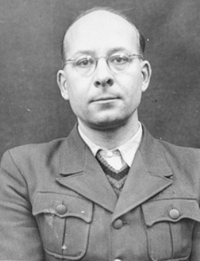 Portrait of Helmut Poppendick as a defendant in the Medical Case Trial at Nuremberg.